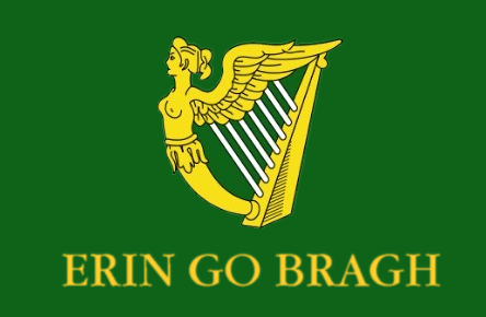 Irish nationalist flag